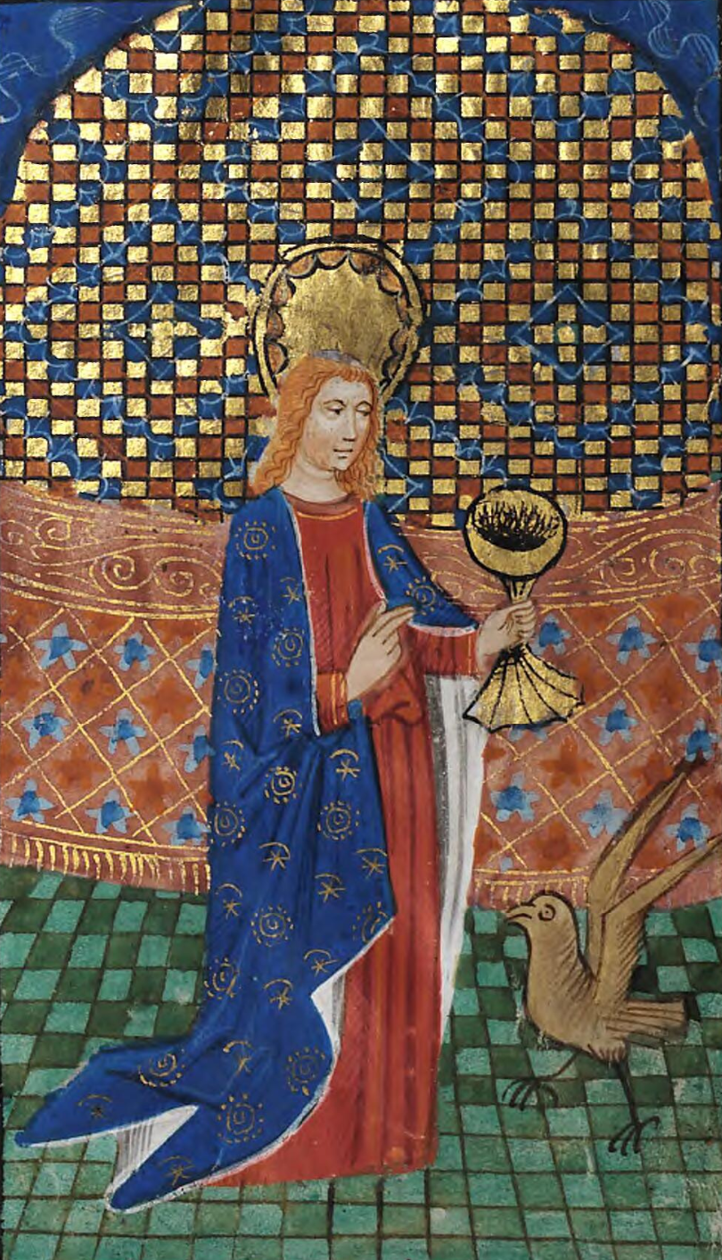 A medieval Book of Hours probably written for the De Grey family of Ruthin c.1390